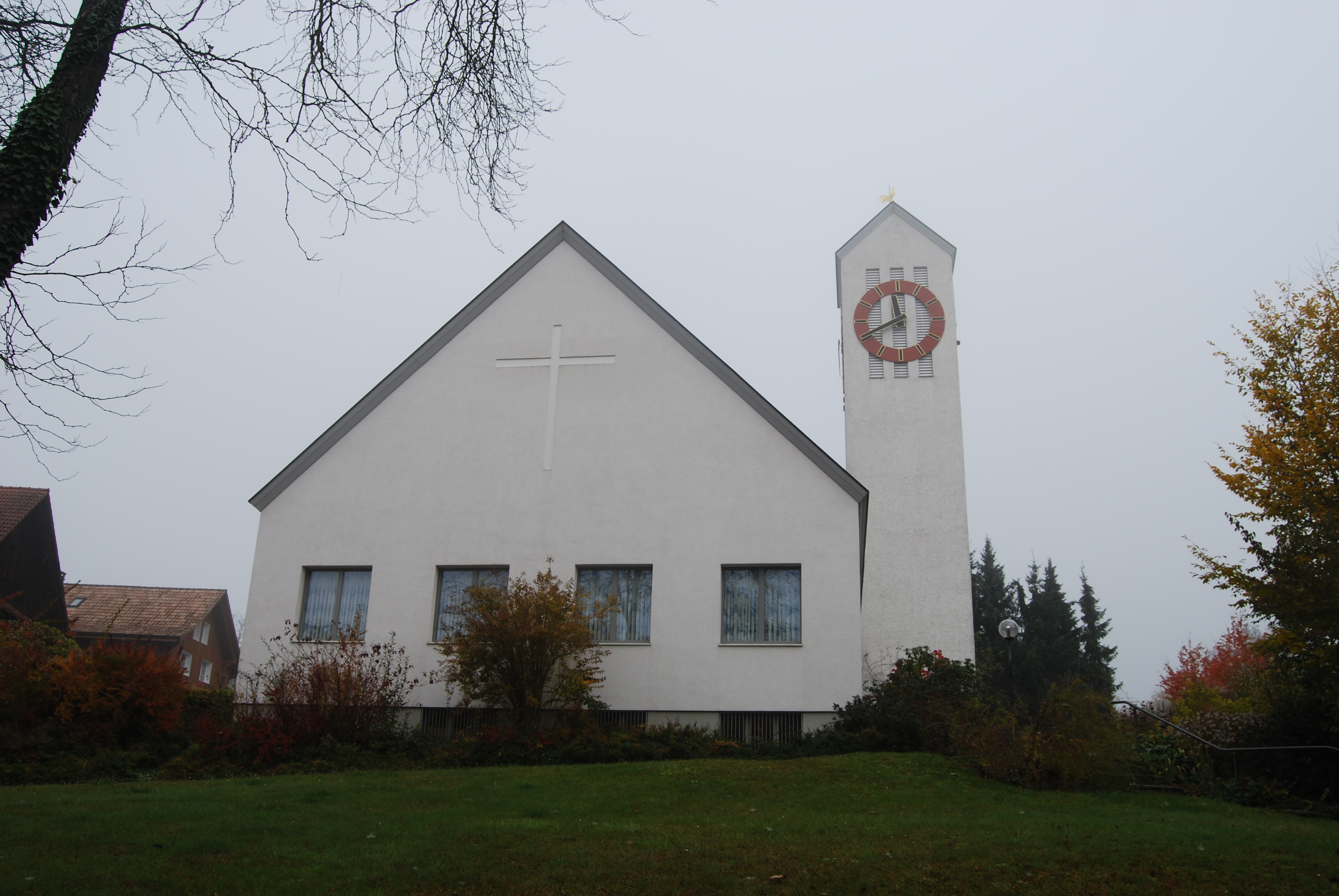 Church of Truttikon, canton of Zürich, SwitzerlandEsperanto: Preĝejo de Truttikon, Kantono Zuriko, Svislando